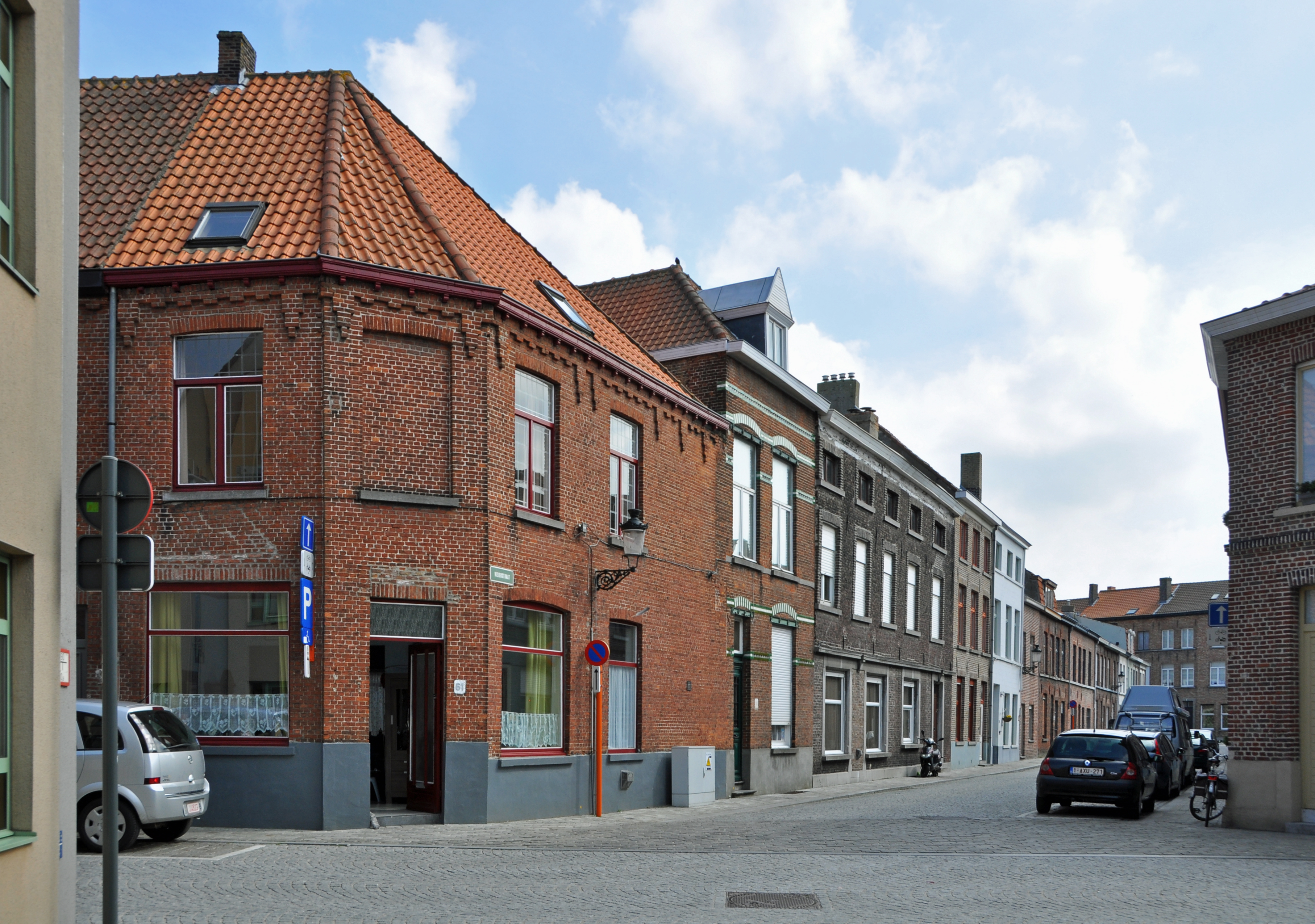 Bruges (Belgium): Vizierstraat